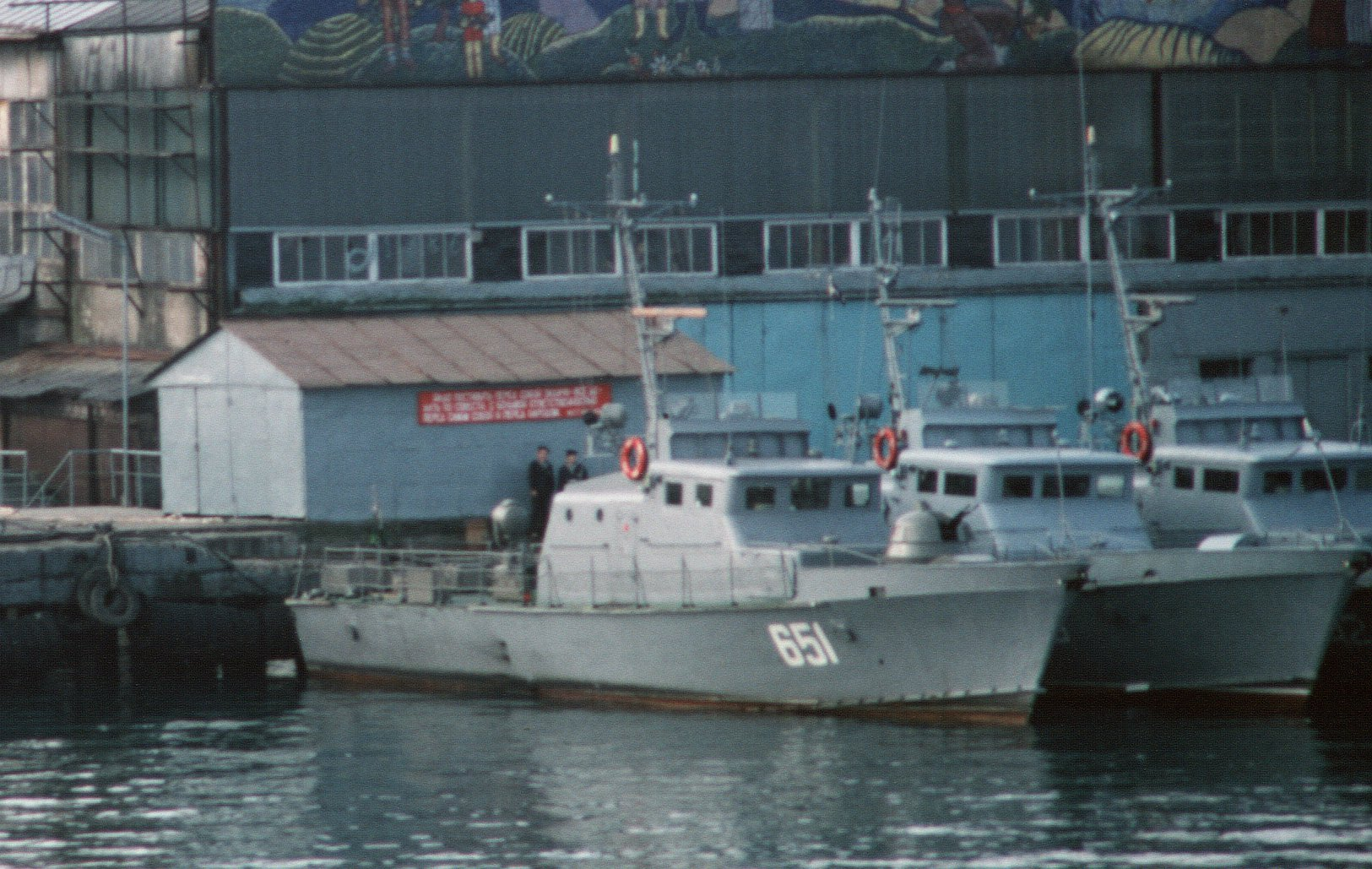 derivative version of PSKApr1400M(DN-ST-89-08524).jpg